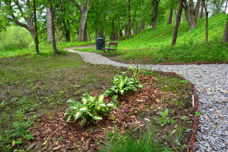 Markowce